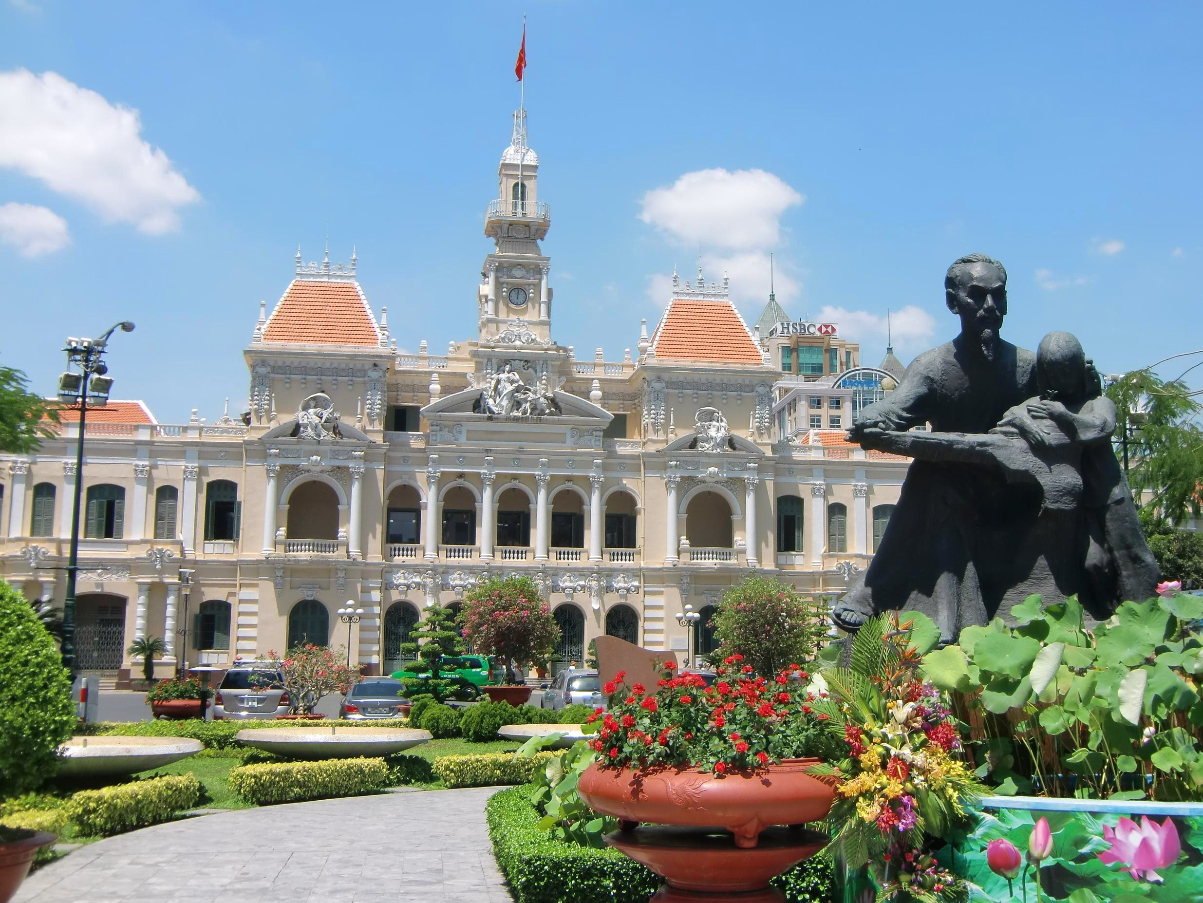 People's Committee Head Office Building of Ho Chi Minh City and Statue of Ho Chi Minh, Ho Chi Minh City, Vietnam.